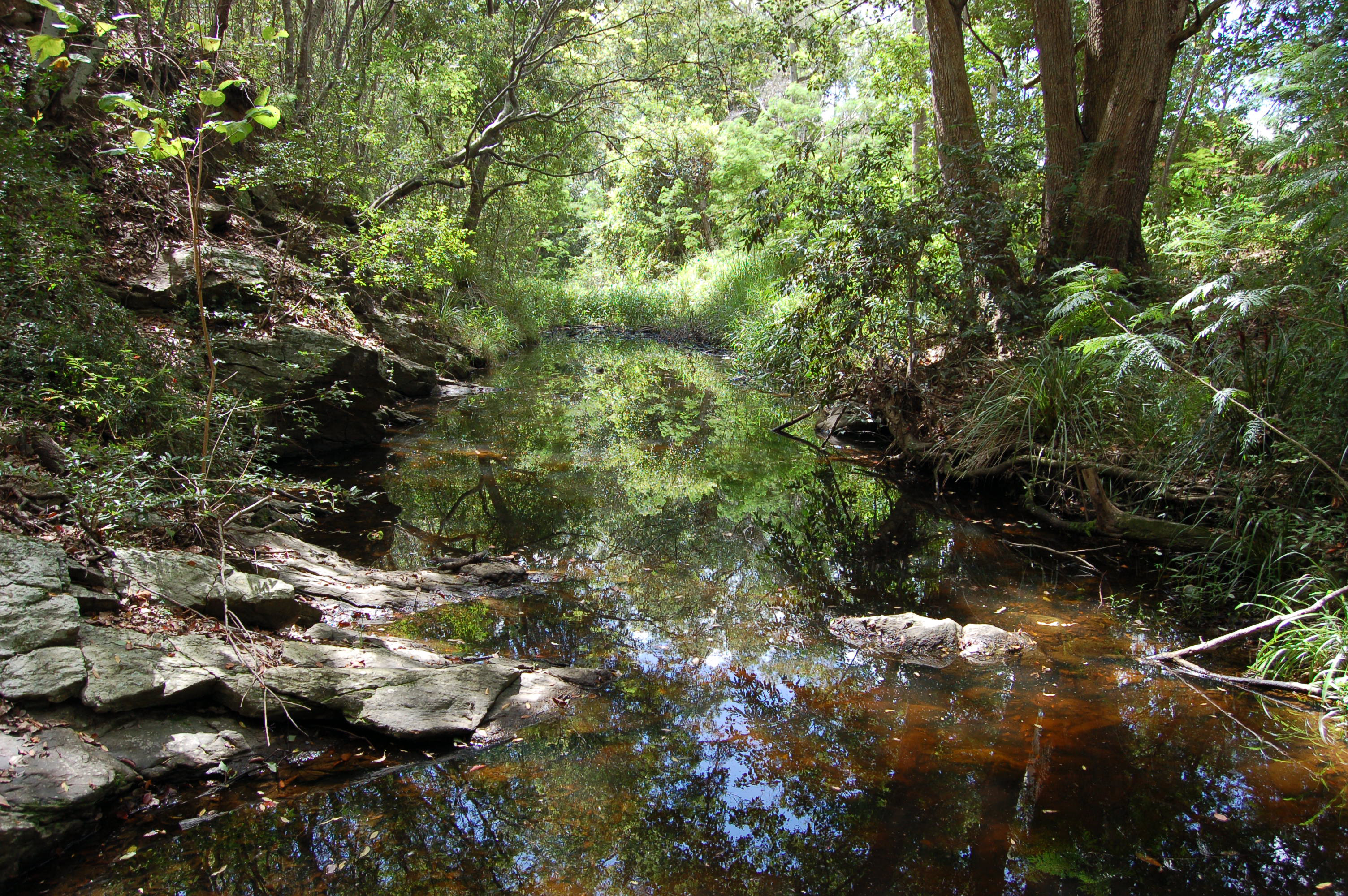 Ithaca Creek, Bardon, Queensland, Australia, looking downstream from Carwoola Street